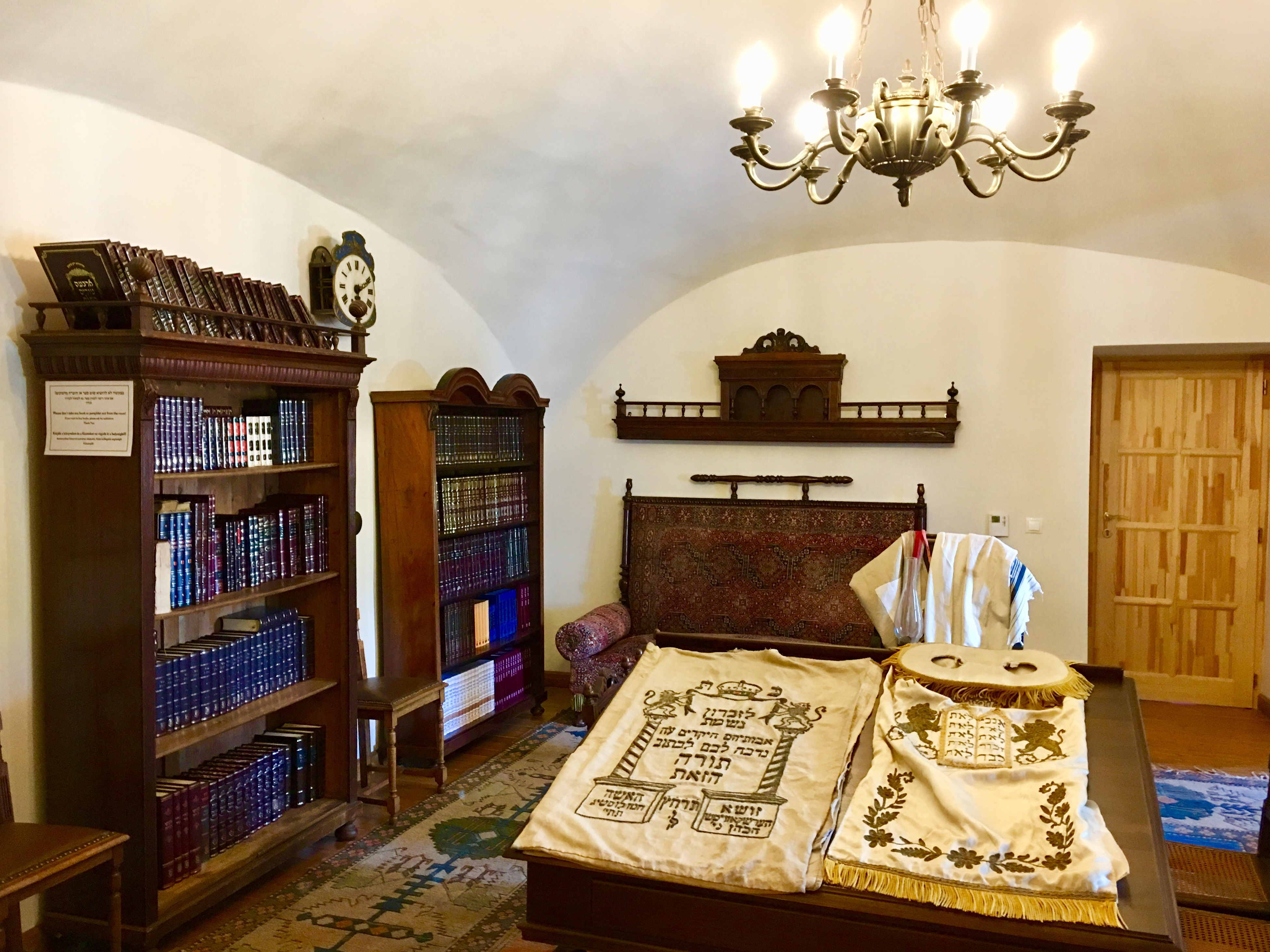 "Csodarabbik utja" Jewish pilgrim house from inside, the former yeshiva of Mad, Hungary